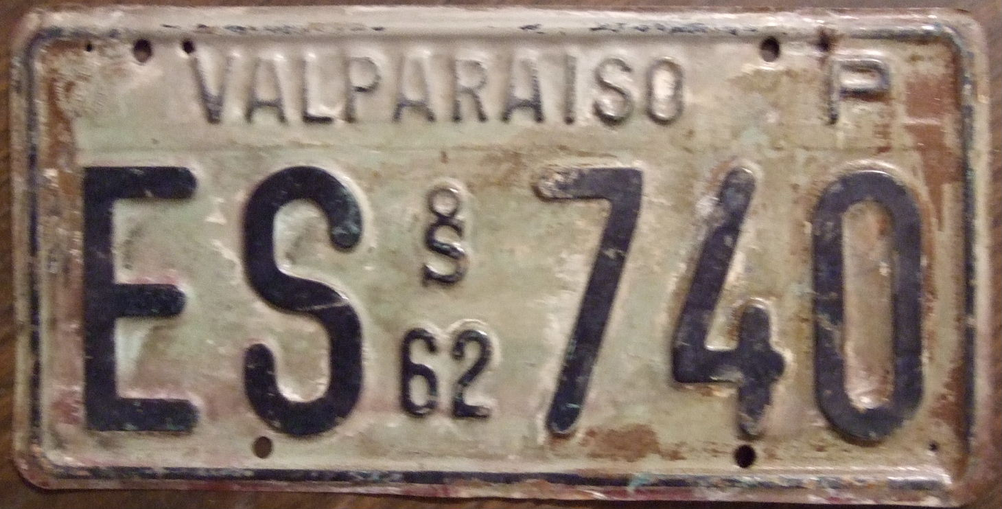 1962 Valparaiso license plate from Chile. private vehicle colored black on pale green.